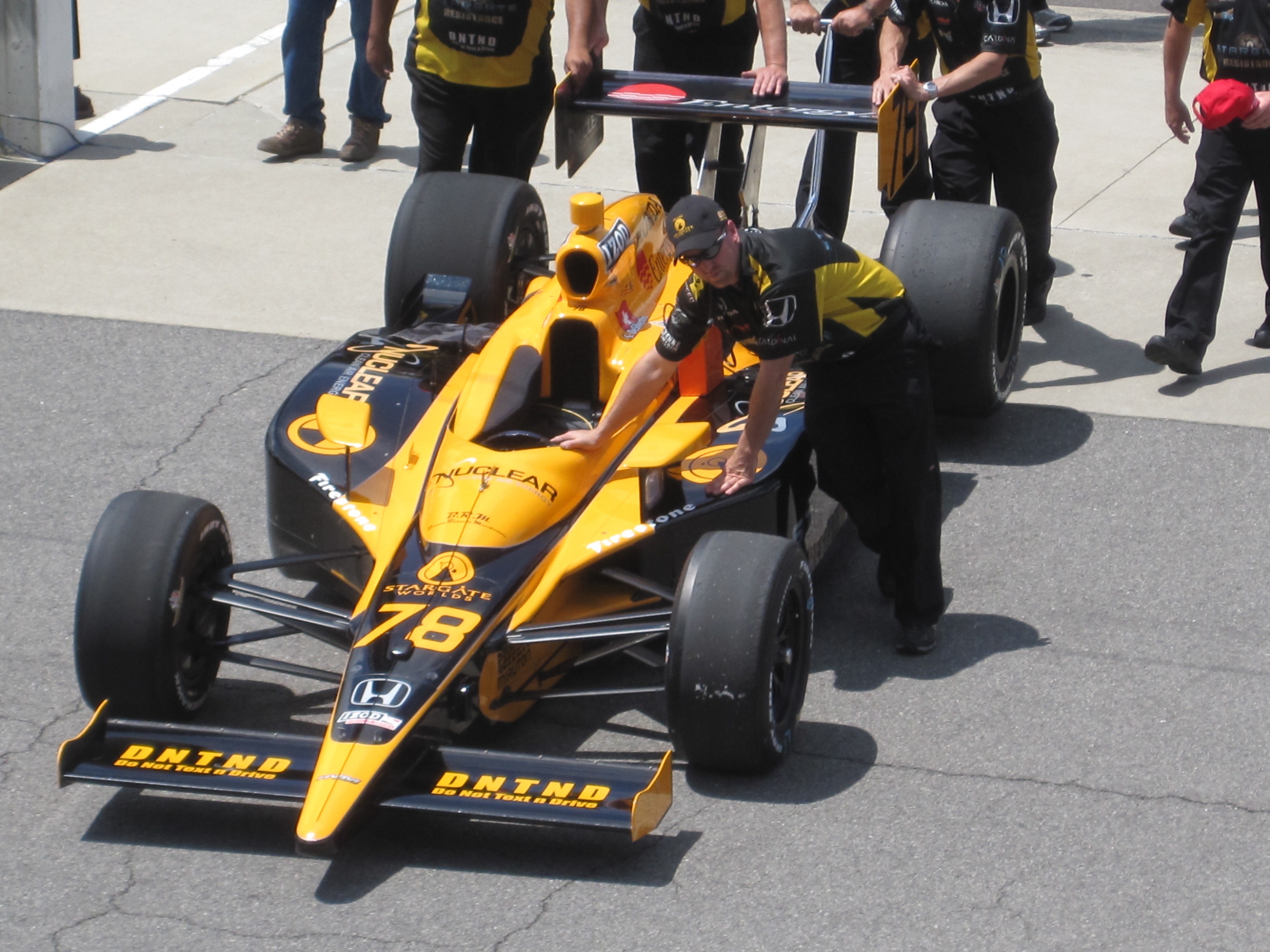 Simona de Silvestro's car at the Indianapolis Motor Speedway for Pole day for the 2010 Indianapolis 500 on Saturday, May 22, 2010.